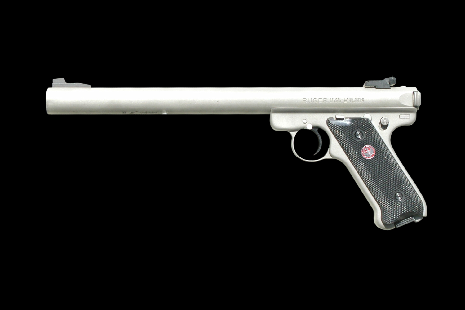 AWC TM-Amphibian "S" integrally-suppressed variant of the Ruger Mk II Target .22LR pistol. The sound suppressor uses a primary baffle of 303 stainless steel and a secondary baffle of 6061 T6 alloy. The AWC weapon manual states, "This suppressor is 'Amphibious' and can be fired with water. A couple of tablespoons of water can be poured into the suppressor for extra quiet operation." Uses both standard and high velocity ammunition and is finished in U.S. Navy spec stainless-matte finish. 13.25" overall length, suppressor length 7" with 1" diameter. 41 oz weight. This weapon is classified in the U.S. as Class III.